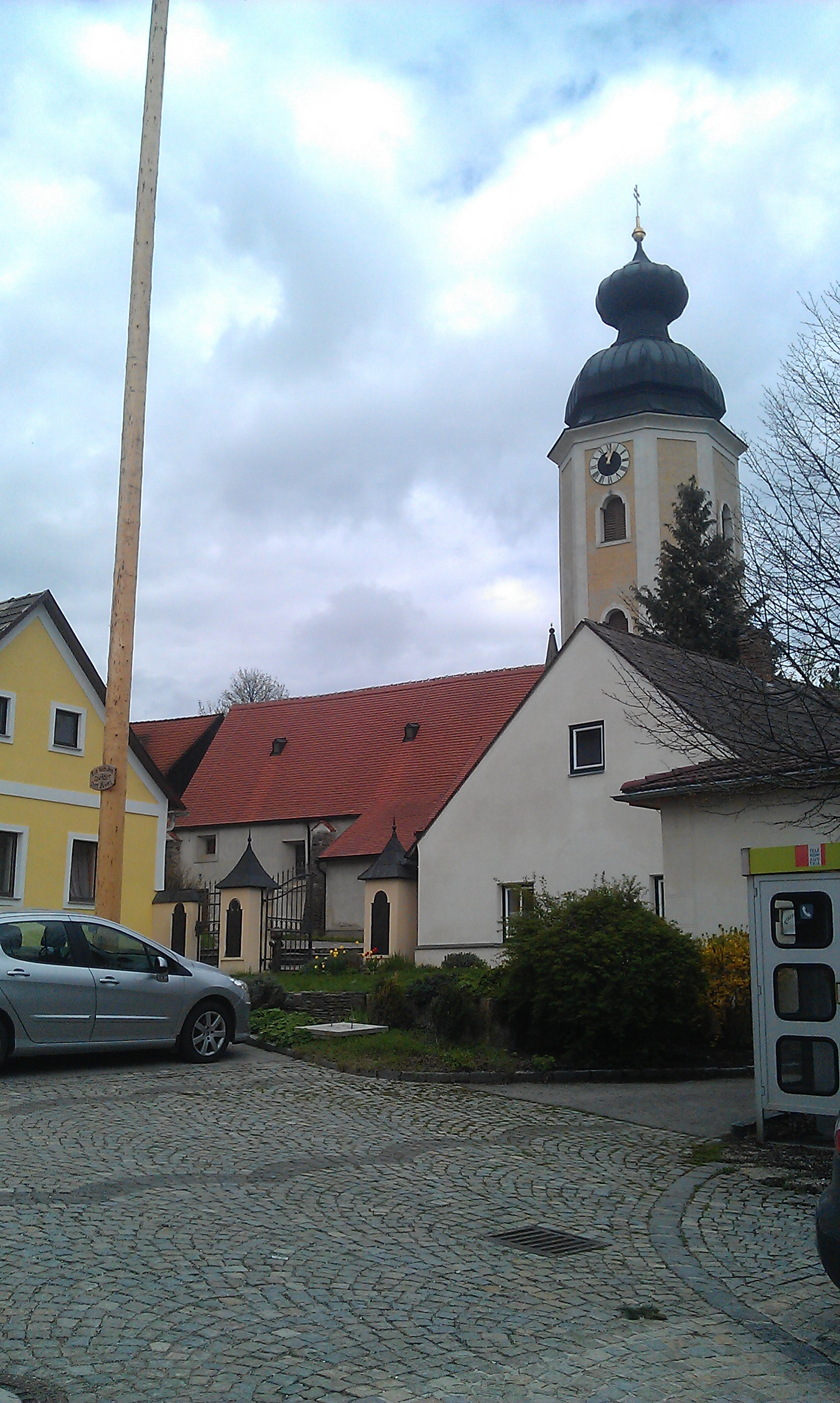 church in Sallingberg, Austria